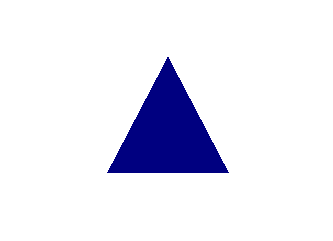 IV Corps, Army of the Potomac, 3rd Division Badge